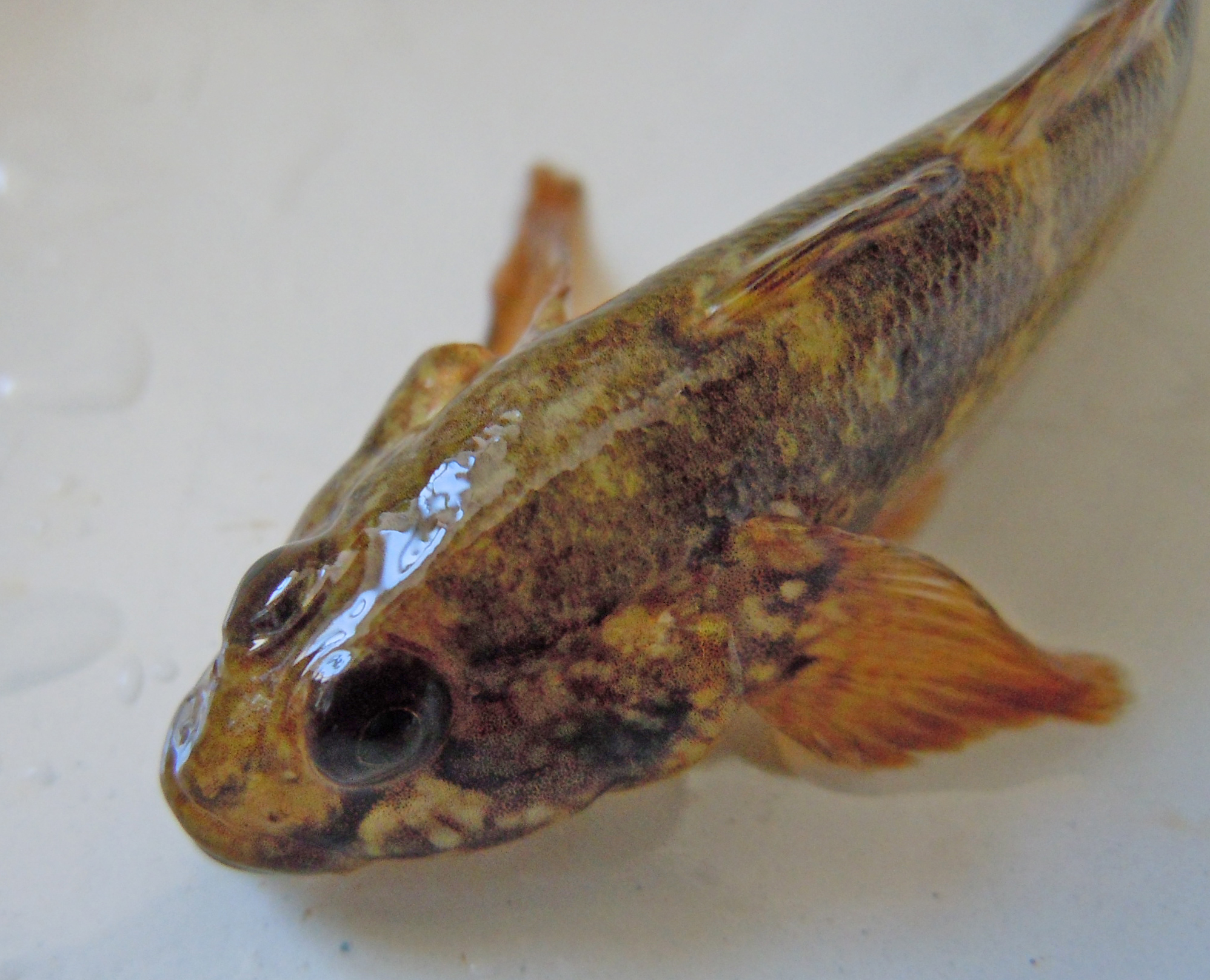 Ratan goby (Ponticola ratan) from the Gulf of Odessa, Ukraine